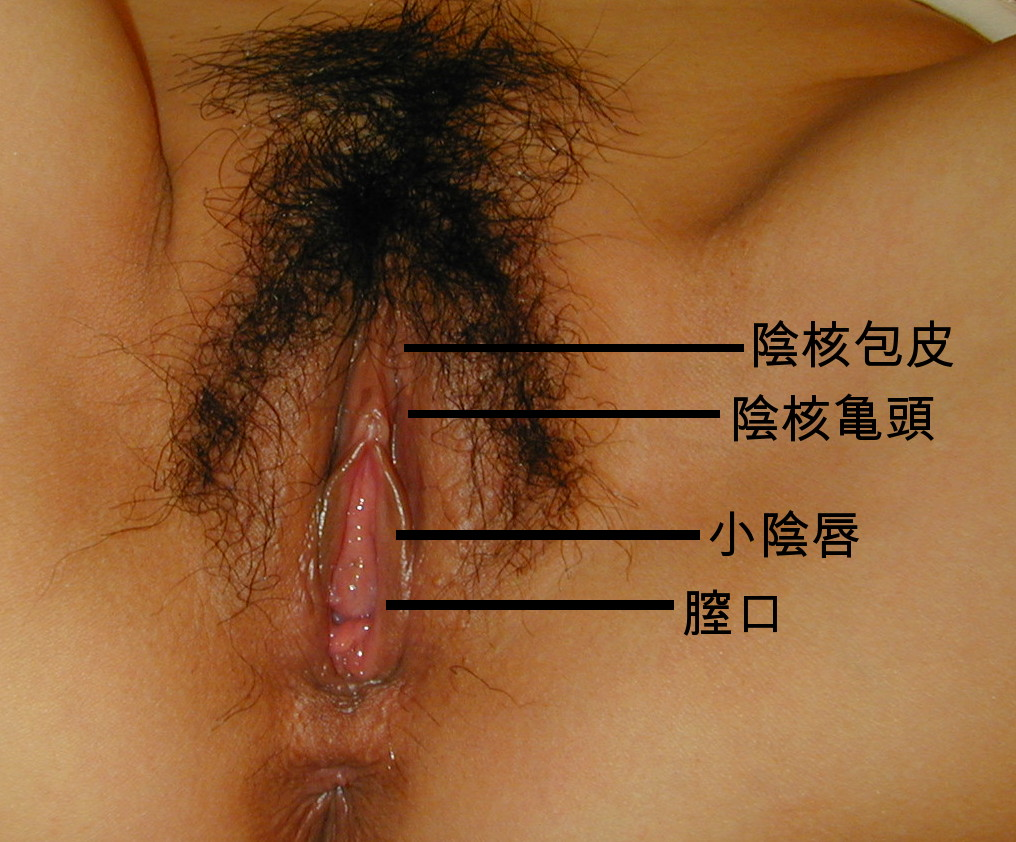 Female genitalia, Vulva, Vagina, Clitoris, Anus, Labia. Labia of a 32 year old Asian model.